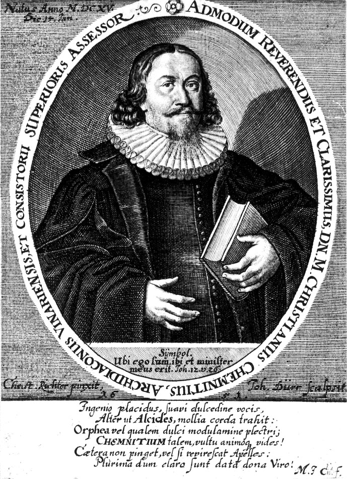 Christian Chemnitz (1615-1666) German Protestant theologian